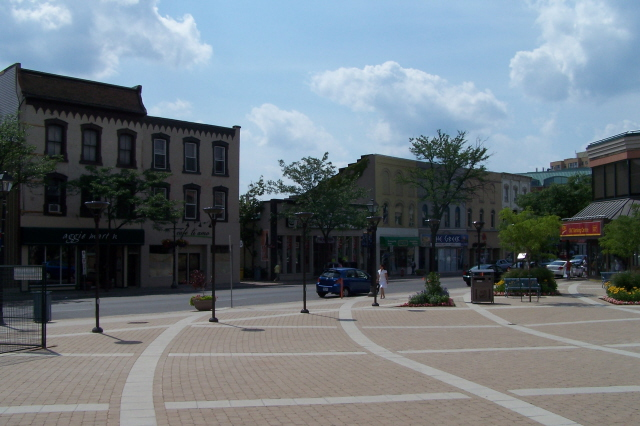 Public square in front of the Rose Theatre in Brampton, Ontario